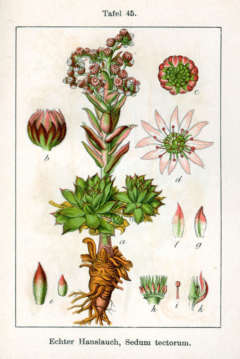 Sempervivum tectorum L. Original Description Echter Hauslauch, Sedum tectorum